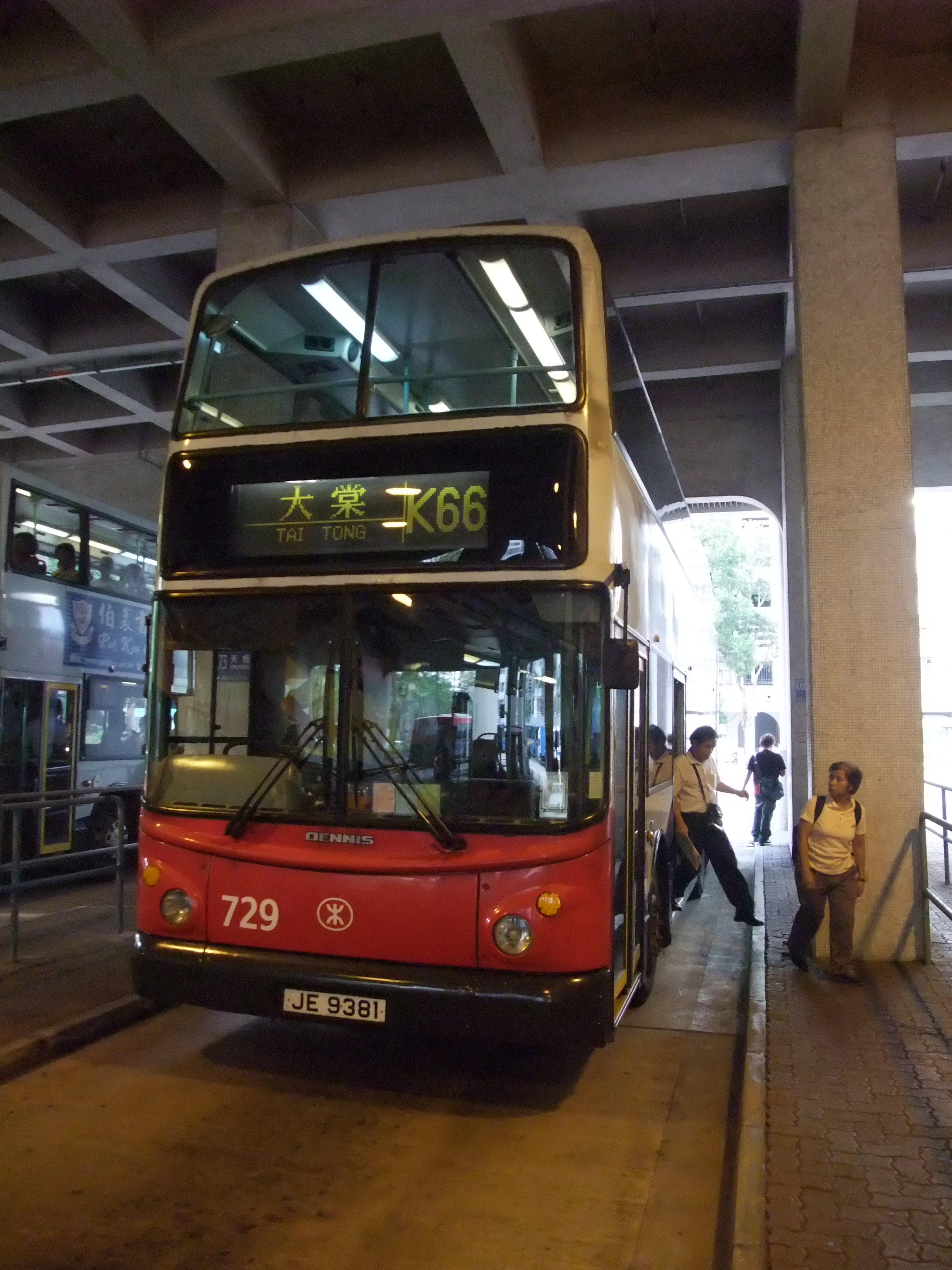 Photo of MTR bus (Route K66)